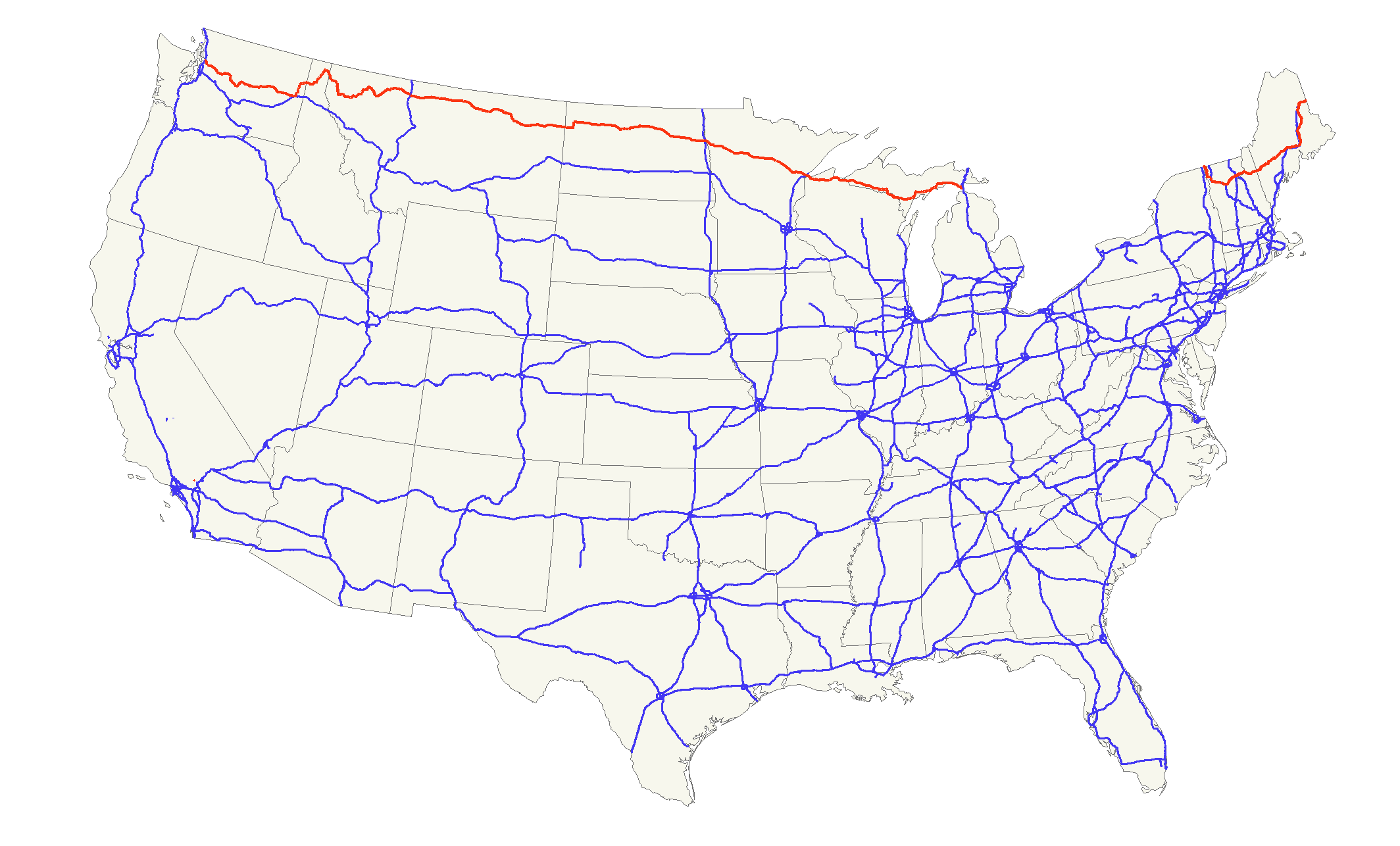 Map of U.S. Route 2